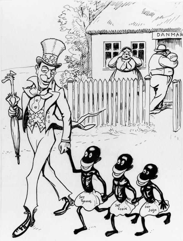 Caricature of the sale of the Danish West Indies to the USA, January, 1917, from the Danish satirical magazine "Klods-Hans". U.S. President Woodrow Wilson, dressed as Uncle Sam, seen walking away with three small caricatured black children labeled with the names of the islands. Original caption (translated from Danish): "The rich Mr Wilson (who has adopted the children for a hefty sum once and for all): 'Come on boys, we'll go and buy you some nice clothes and a gold watch with chain.'"